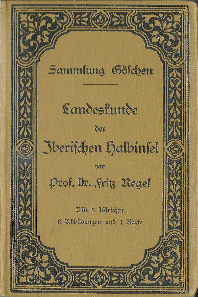 Front cover of Fritz Regels's book Landeskunde der Iberischen Halbinsel (Regional and cultural studies of the Iberian peninsula), Volume 235 of the Goeschen collection